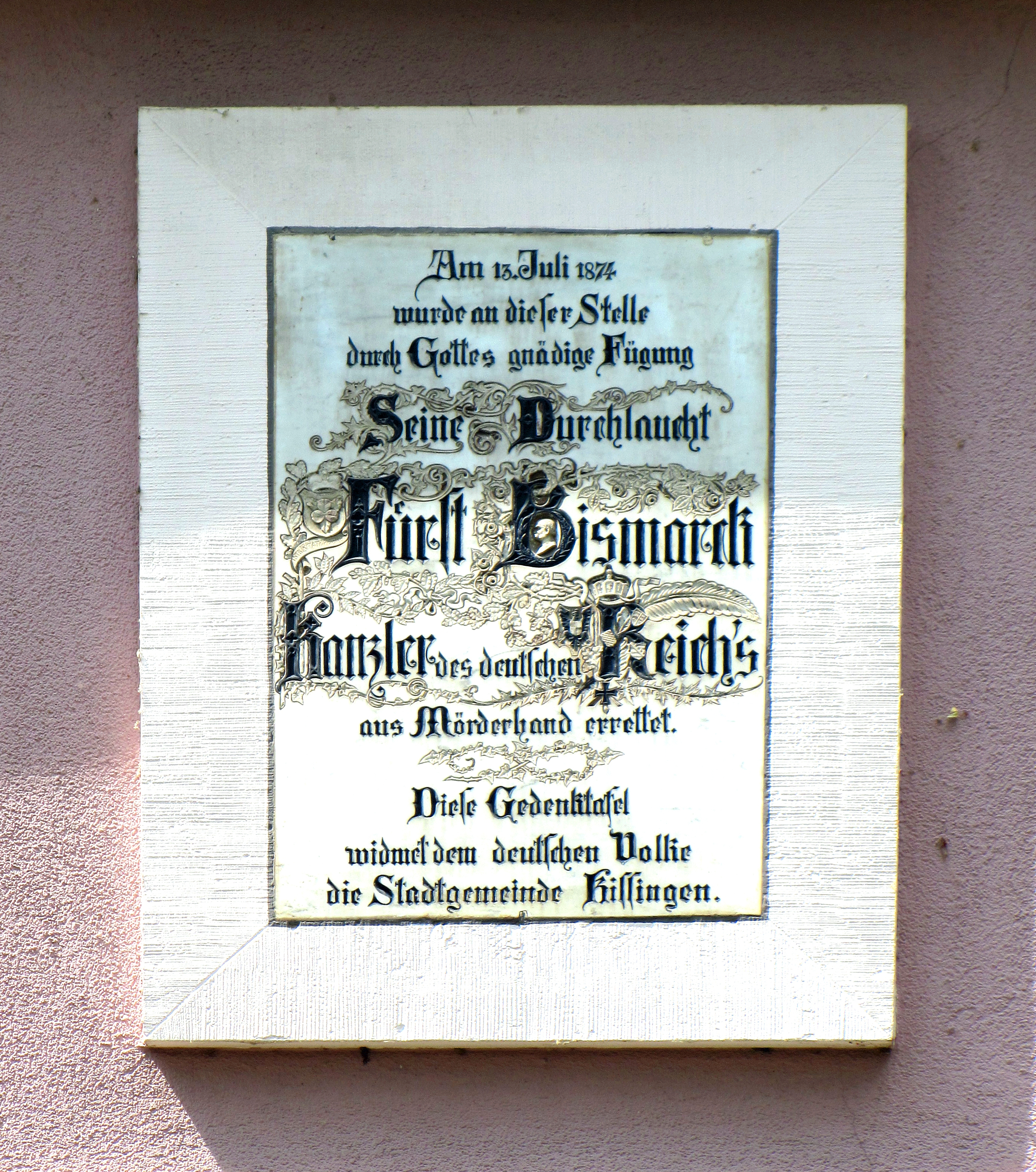 Plaque commemorating the assassination attempt on Otto von Bismarck in Bad Kissingen in 1874. The plaque was made by sculptor Michael Arnold and is located at Bad Kissingen, Bismarckstraße 16